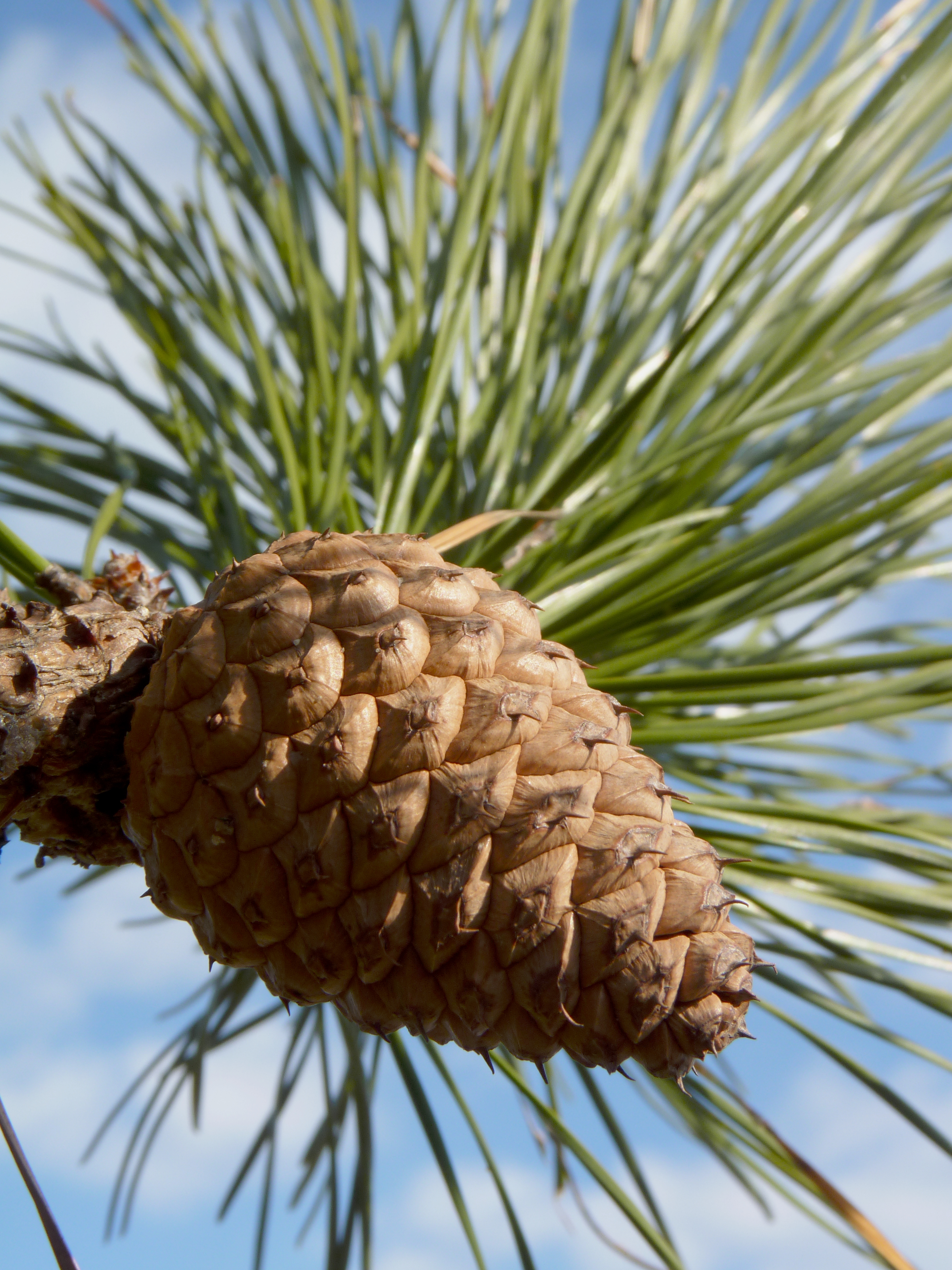 Pitch Pine Pinus rigida cone, Cheesequake, Matawan, New Jersey, USA.